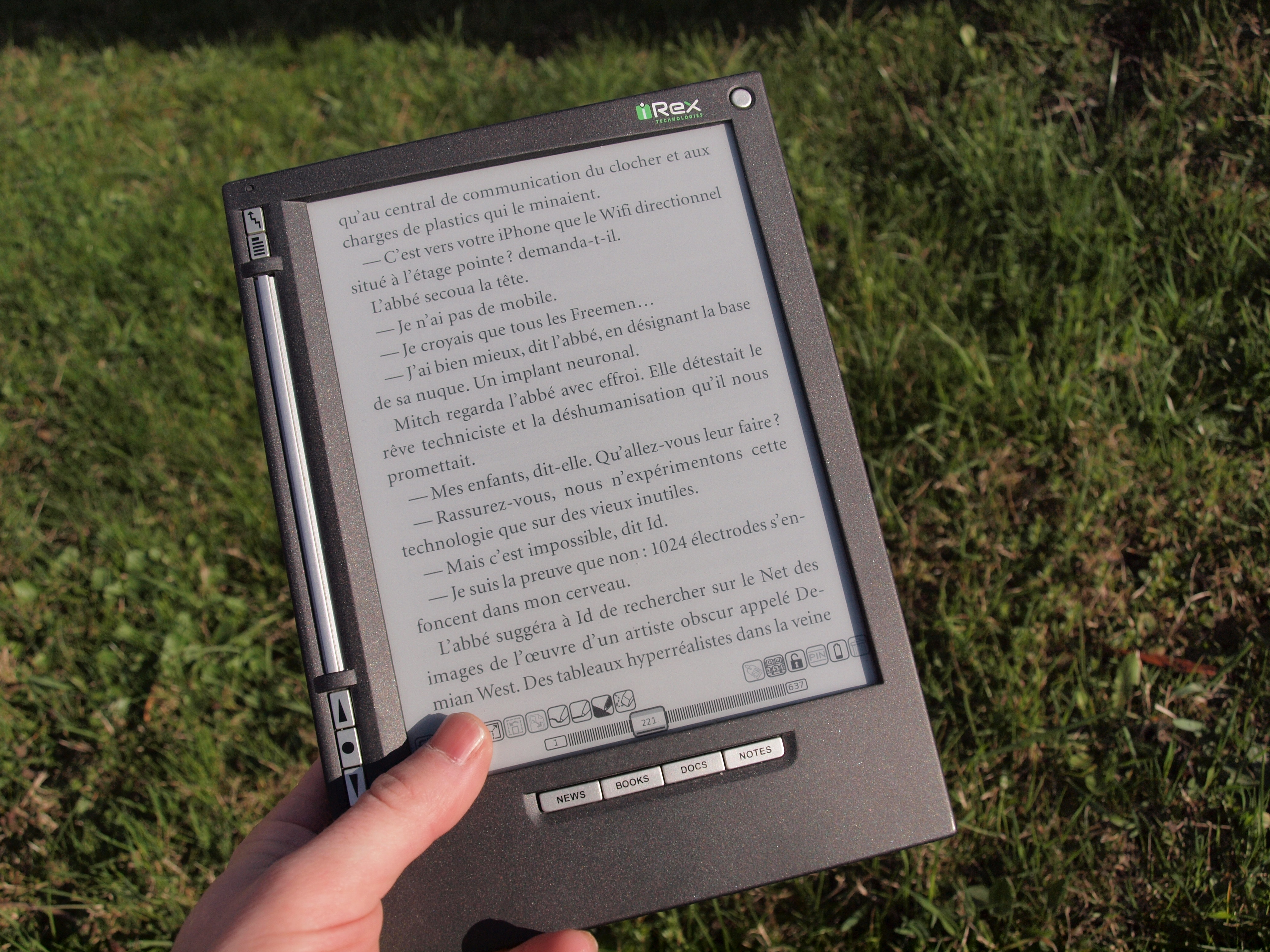 IRex iLiad ebook reader outdoors in sunlight. Electronic paper. Electrophoretic display.